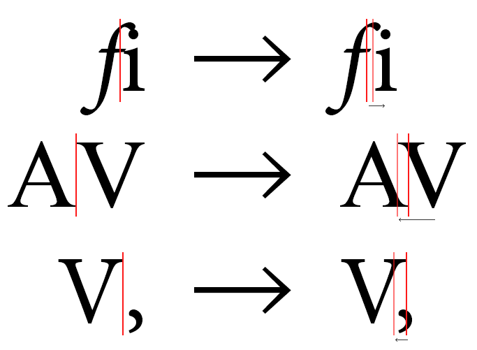 Unkerned and kerned character pairs. This picture is not under copyright, however the actuals fonts used are.